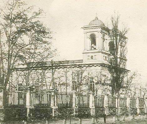 Chişinău, Roman Catholic Cathedral